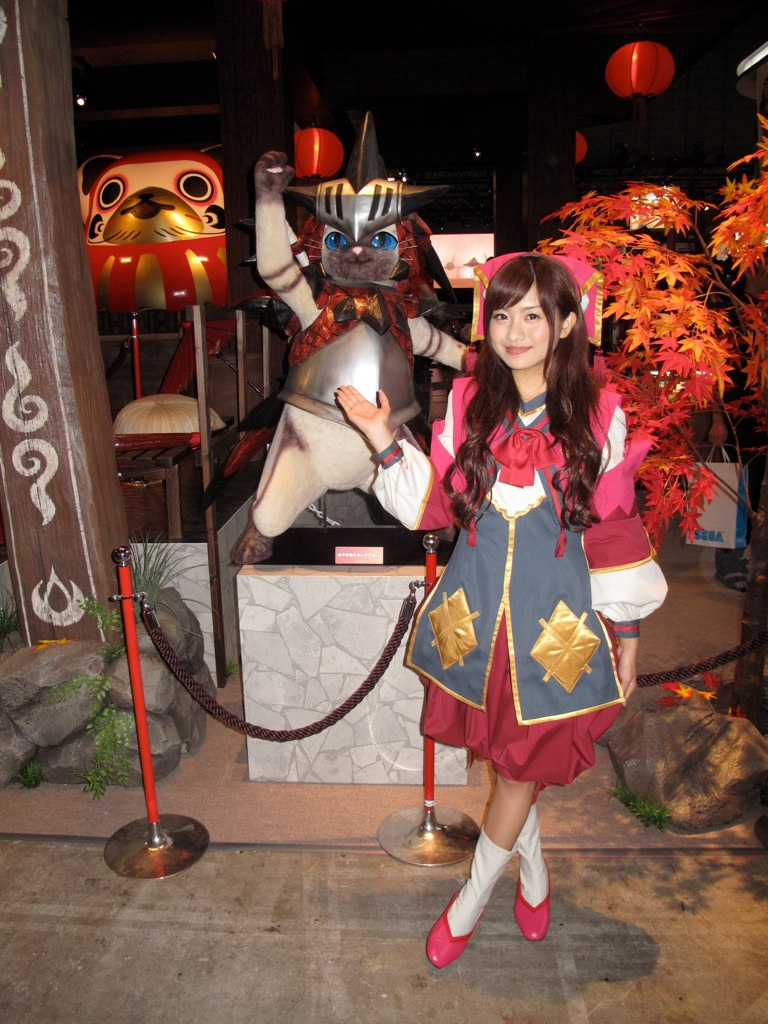 Promotion of "Monster Hunter" with Marie Soda's cosplay by Capcom at Tokyo Game Show 2010.